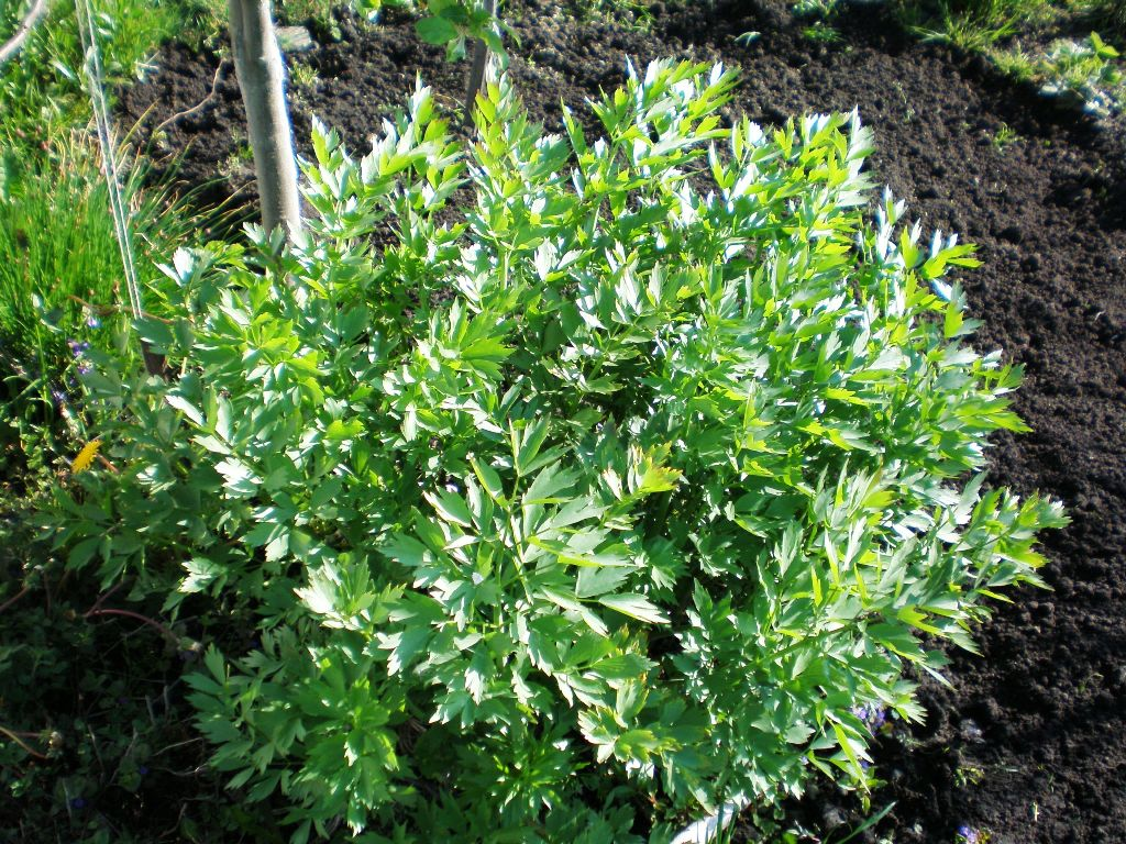 Levisticum officinale